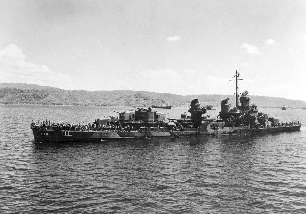 The U.S. Navy destroyer USS La Vallette (DD-448) at Mariveles, Philippines, after being damaged by a mine on 14 February 1945.